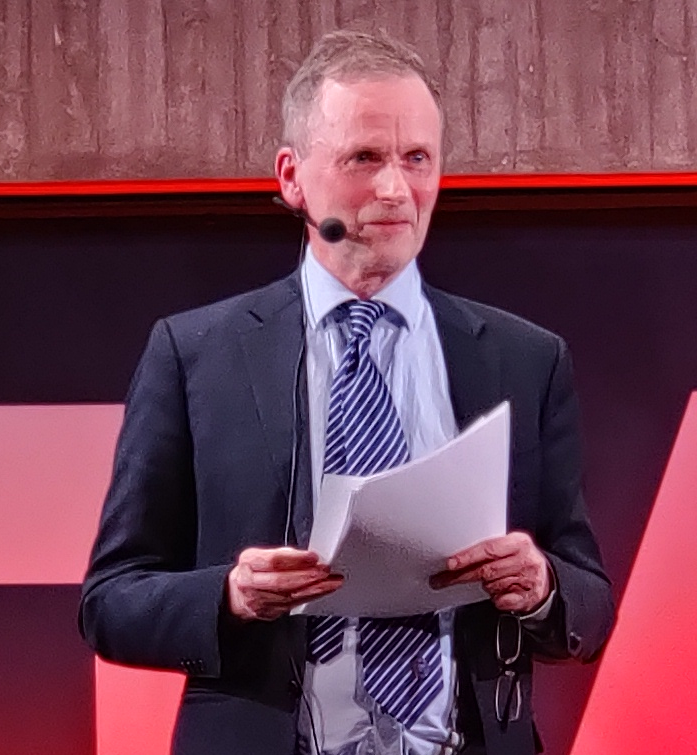 Kimmo Nuotio at the Helsinki University Think Corner